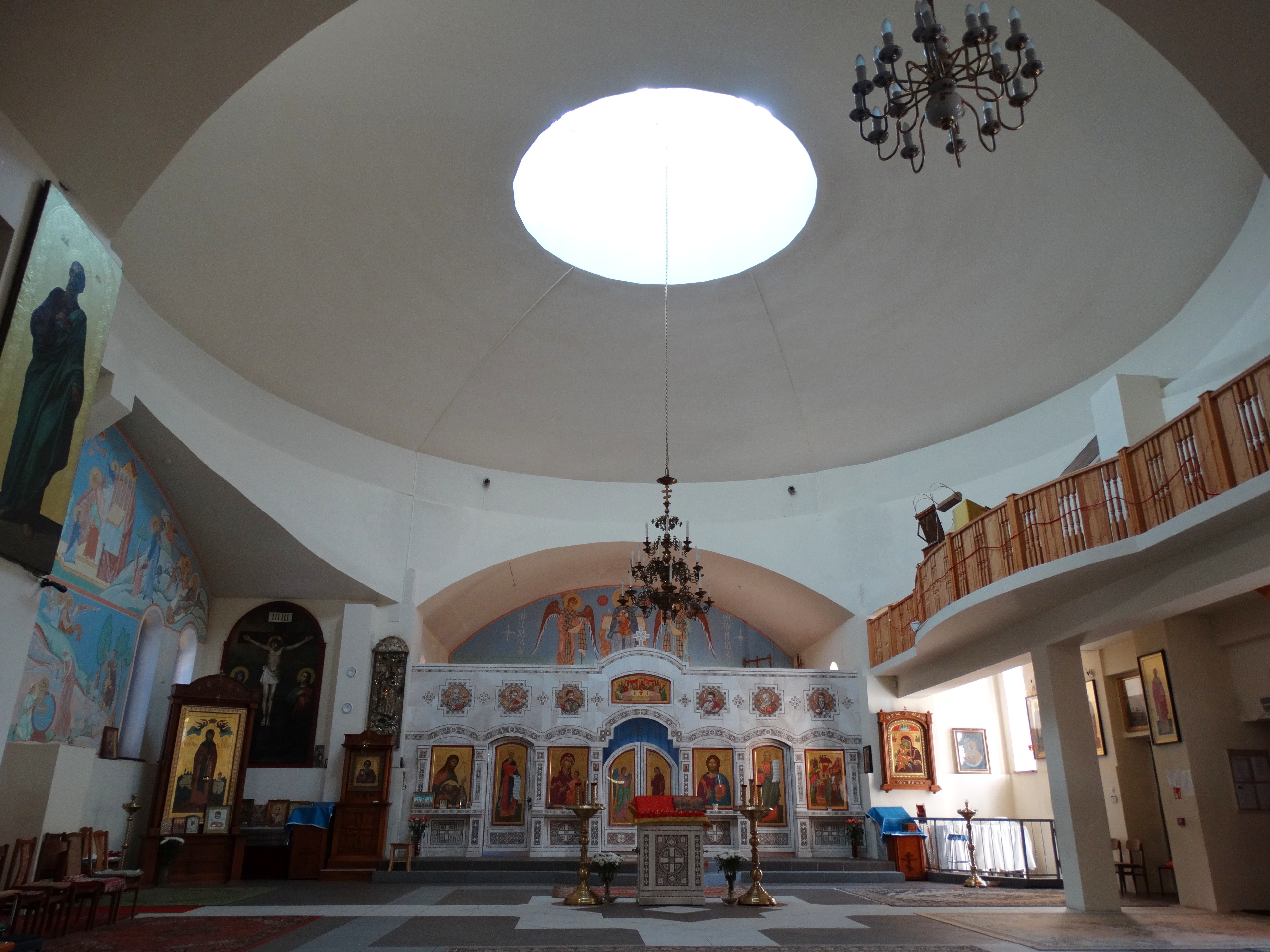 Interior, Orthodox Church of St. Martyr Panteleimon, Visaginas, Lithuania